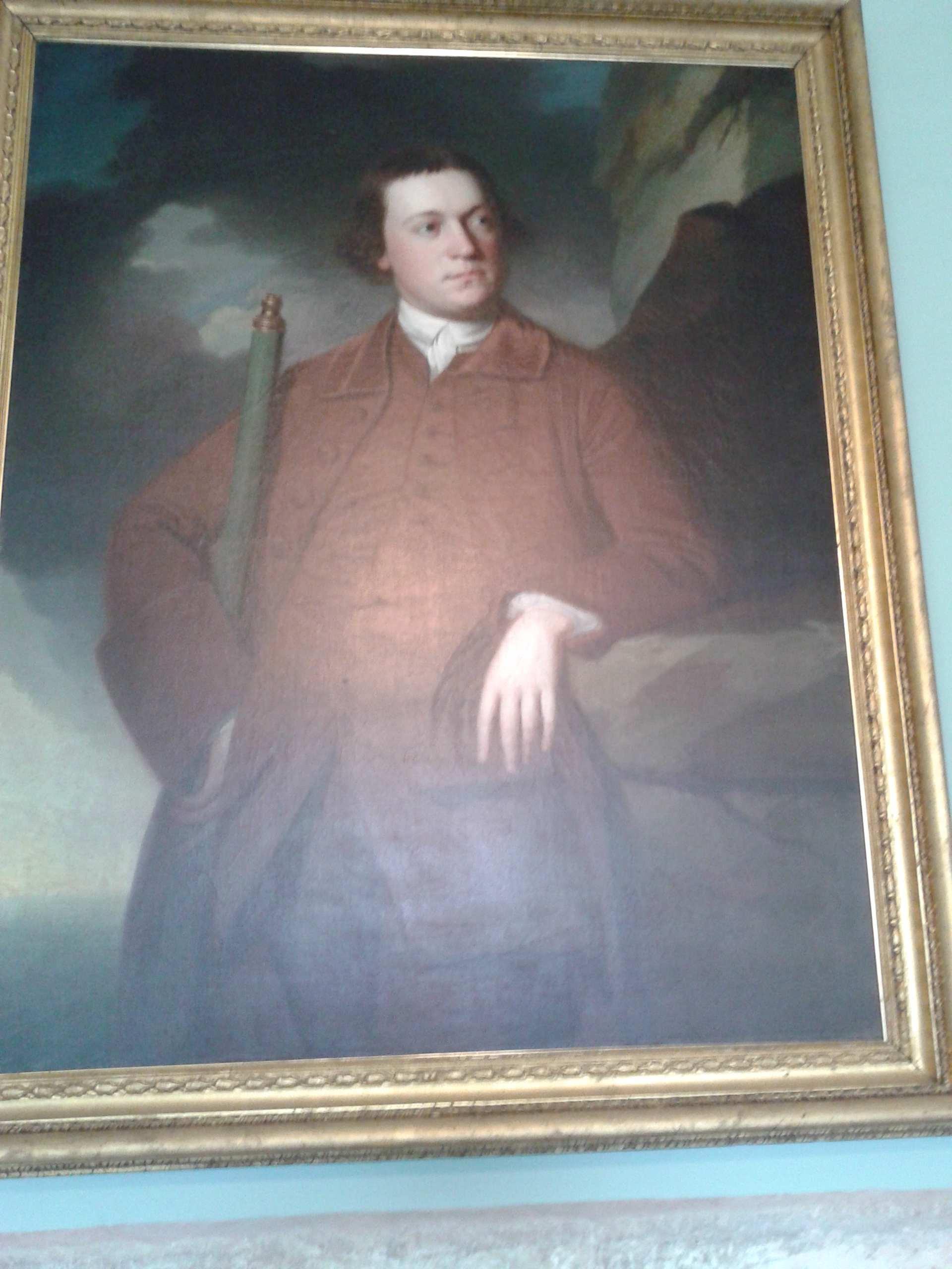 Portrait of Abraham Rawlinson (1738–1803) by George Romney (1734-1802), held in the Judges' Lodgings, Lancaster, England.